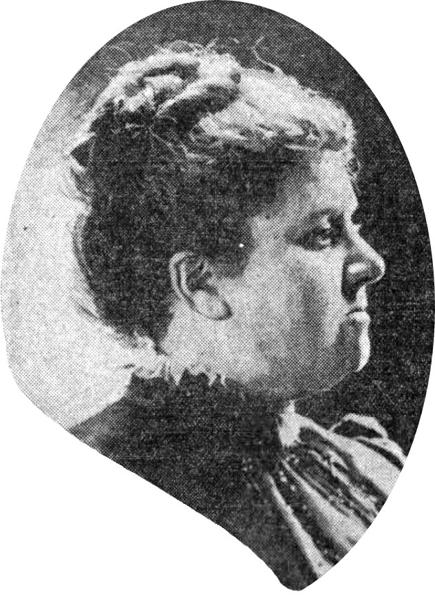 Corinne Marie Allen (née Tuckerman), wife of Clarence Emir Allen.